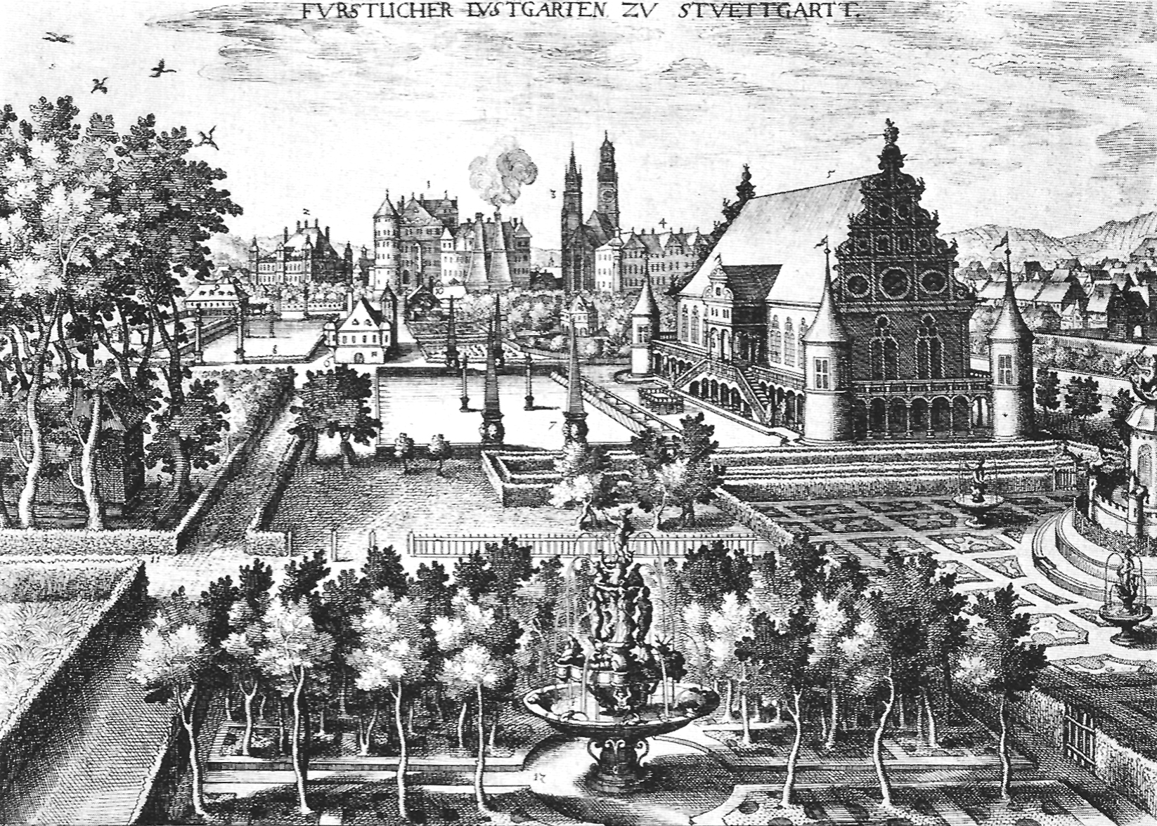 Ducal pleasure house in Stuttgart, built 1584 by Georg Beer